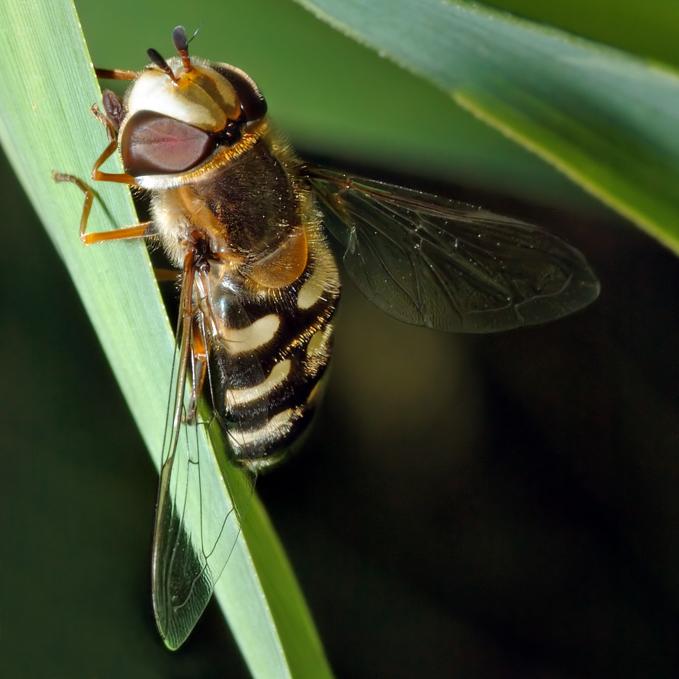 This image shows a hoverfly of the species Scaeva pyrastri. Thanks to Luis Fernández García for identifying this animal.